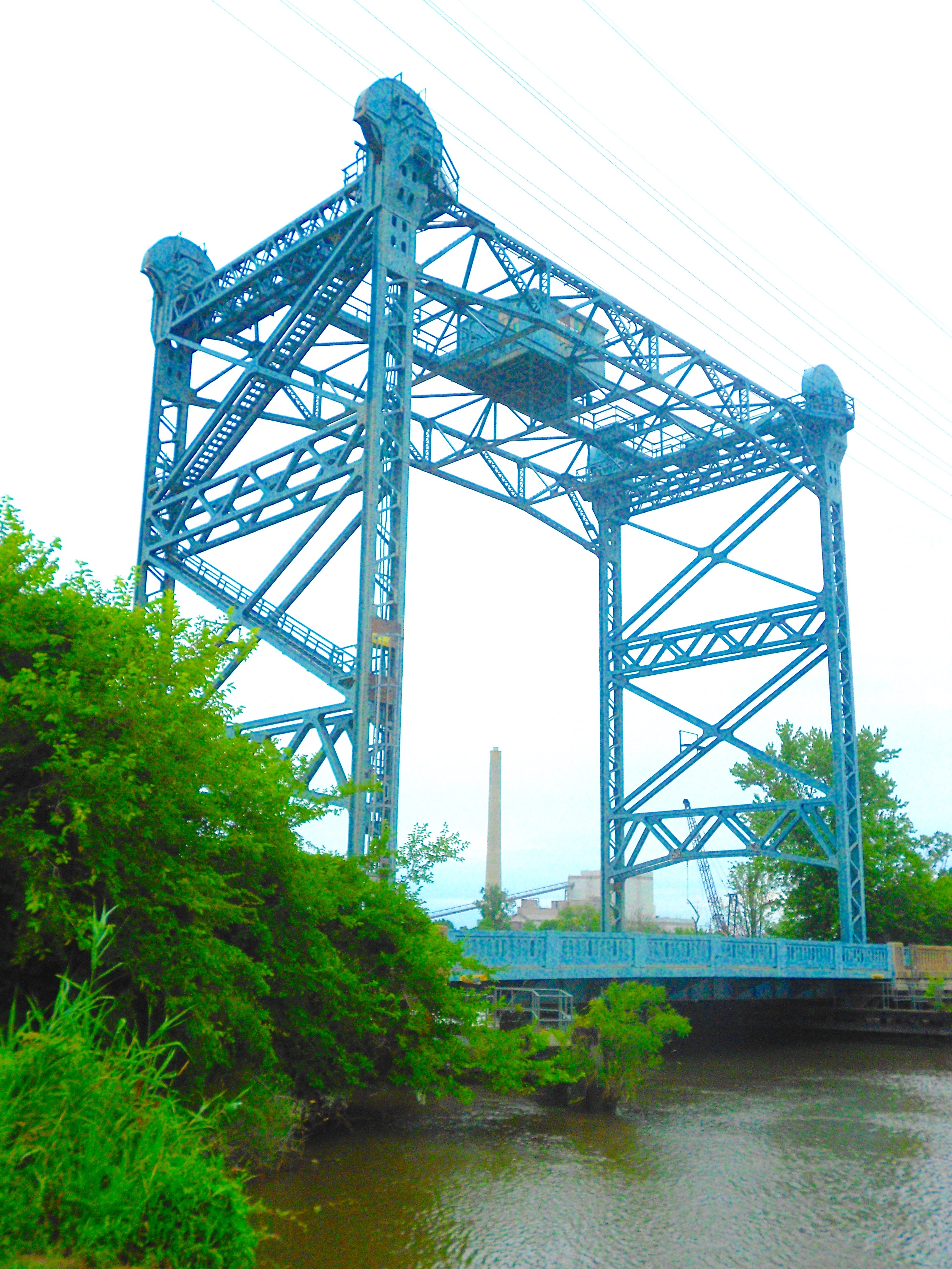 Bridge over Oldmans Creek on US 130 in New Jersey. The south (near) side is in Oldmans Township, the north (far) side is in Logan Township